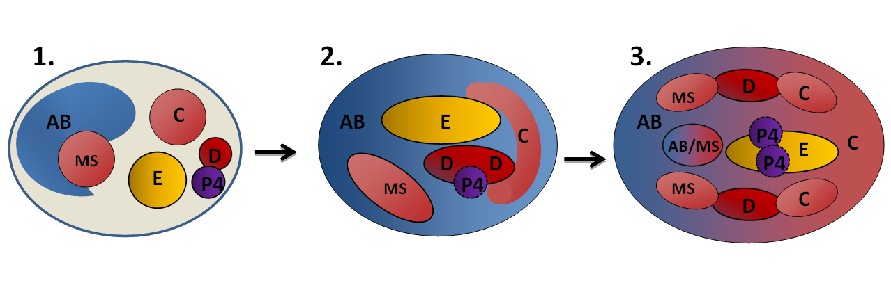 1: ubicación de las células fundadoras y sus células hijas en el cigoto en estadio de 24 células antes del proceso de gastrulación. 2: embrión en estadio de 102 células una vez la migración de las células hijas de E, P4 y D han migrado. 3: Ubicaciones de las células en etapas tardías de la segmentación.